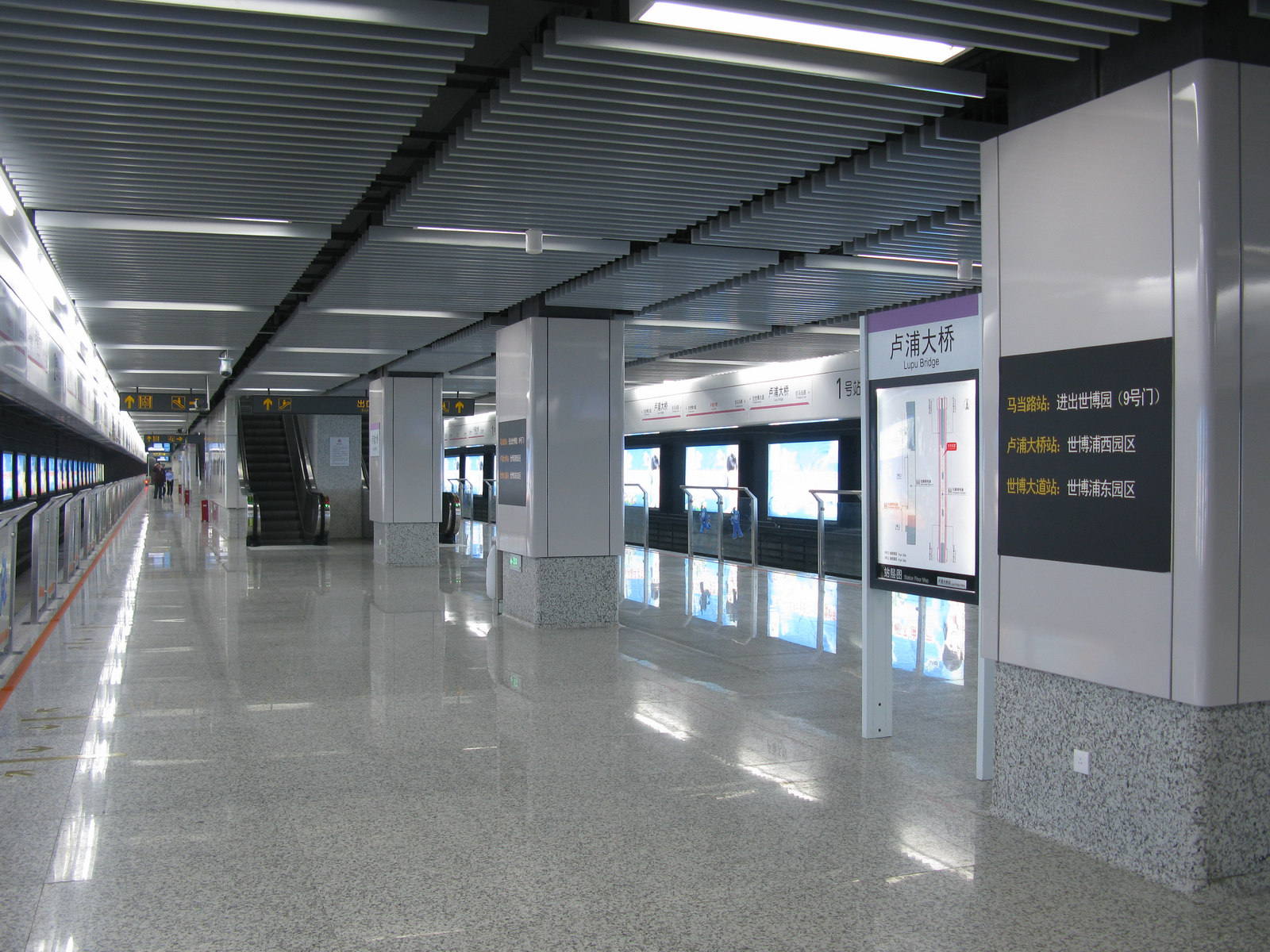 Line 13 Platform of Shanghai World Expo Museum Station (f.k.a. Lupu Bridge Station), Shanghai Metro